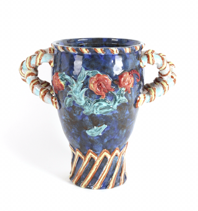 Piowitt